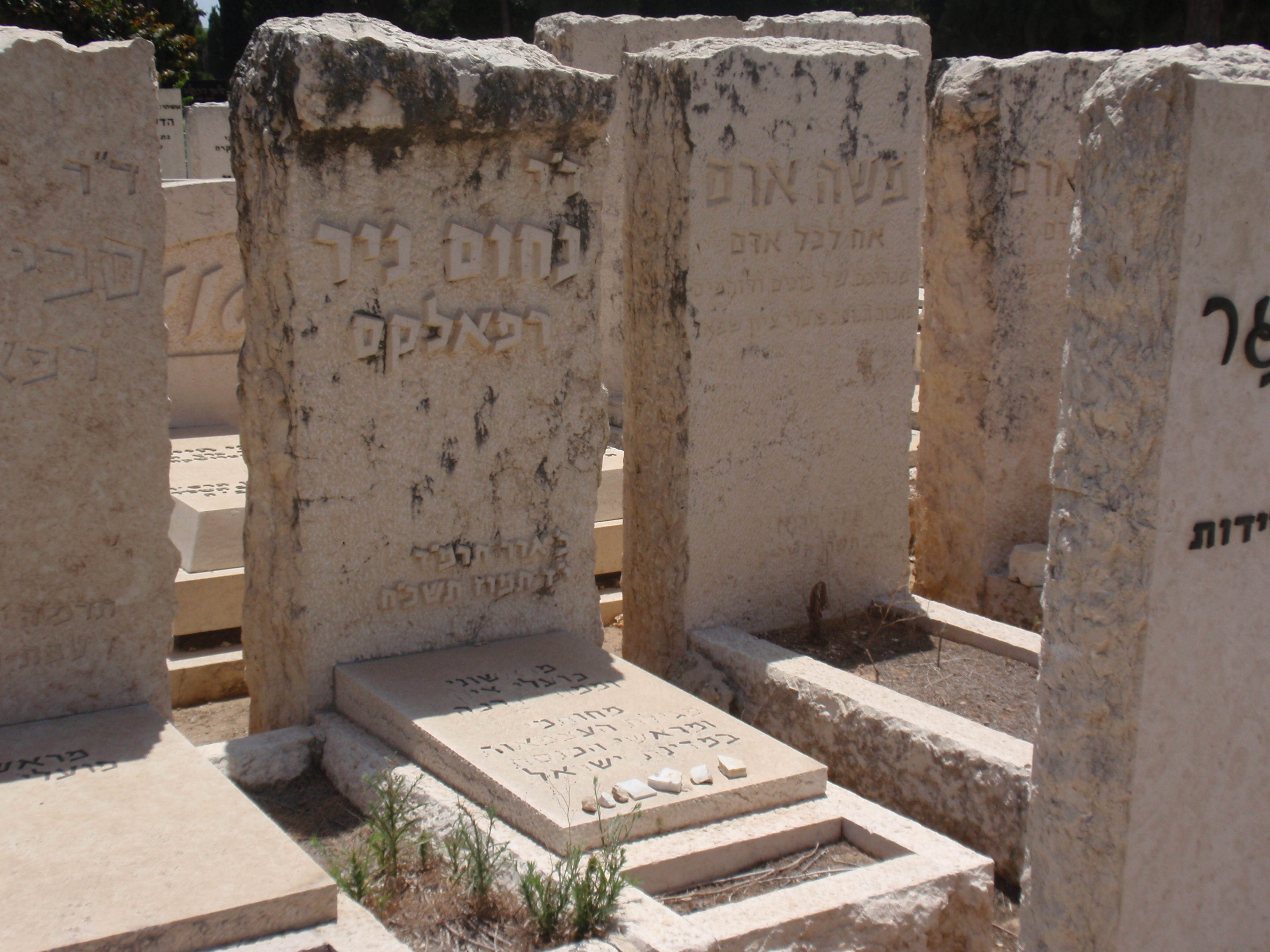 Tombstones of politicians Nahum Nir and Moshe Aram at Kiryat Shaul cemetery, Tel Aviv, Israel